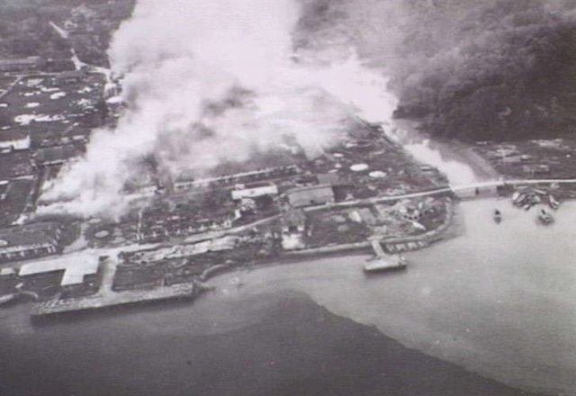 THE TOWN OF BRUNEI UNDER ATTACK BY 5 BEAUFIGHTER AIRCRAFT OF NO. 31 SQUADRON RAAF.